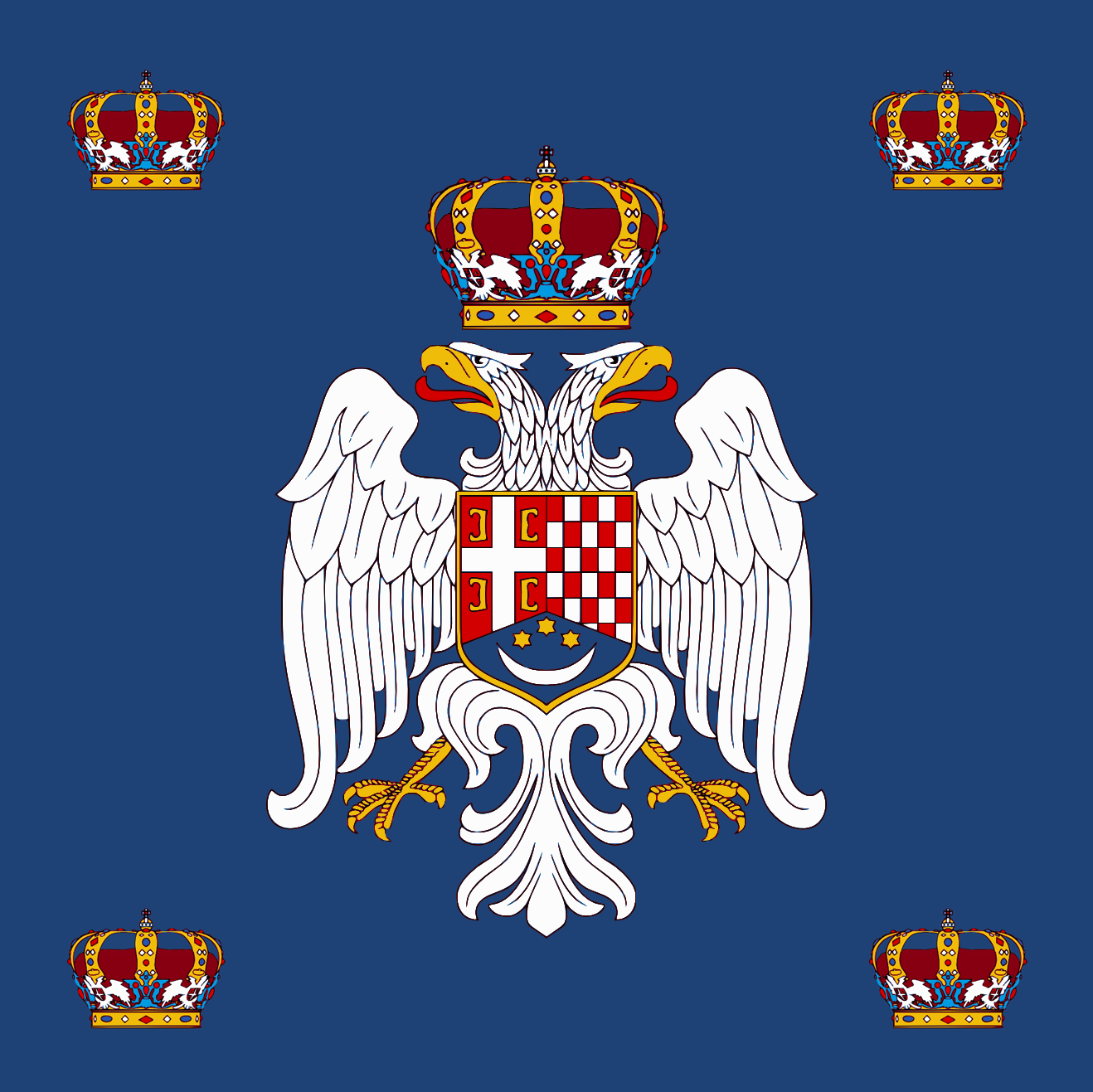 Royal Standard of Crown Prince Alexander of Yugoslavia